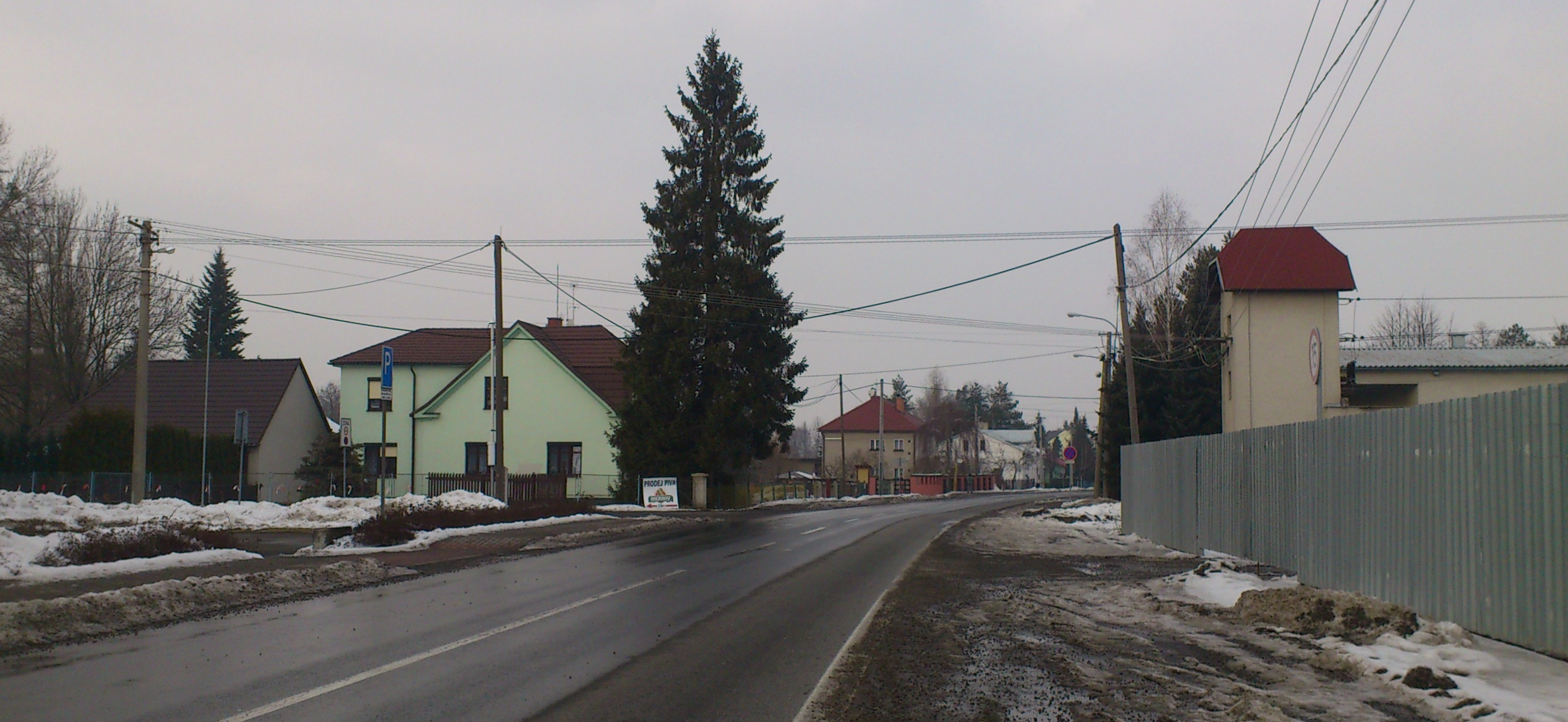 Nošovice